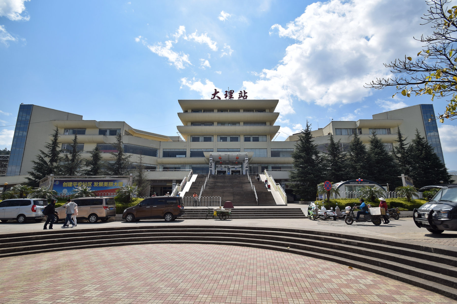 Dali Railway Station